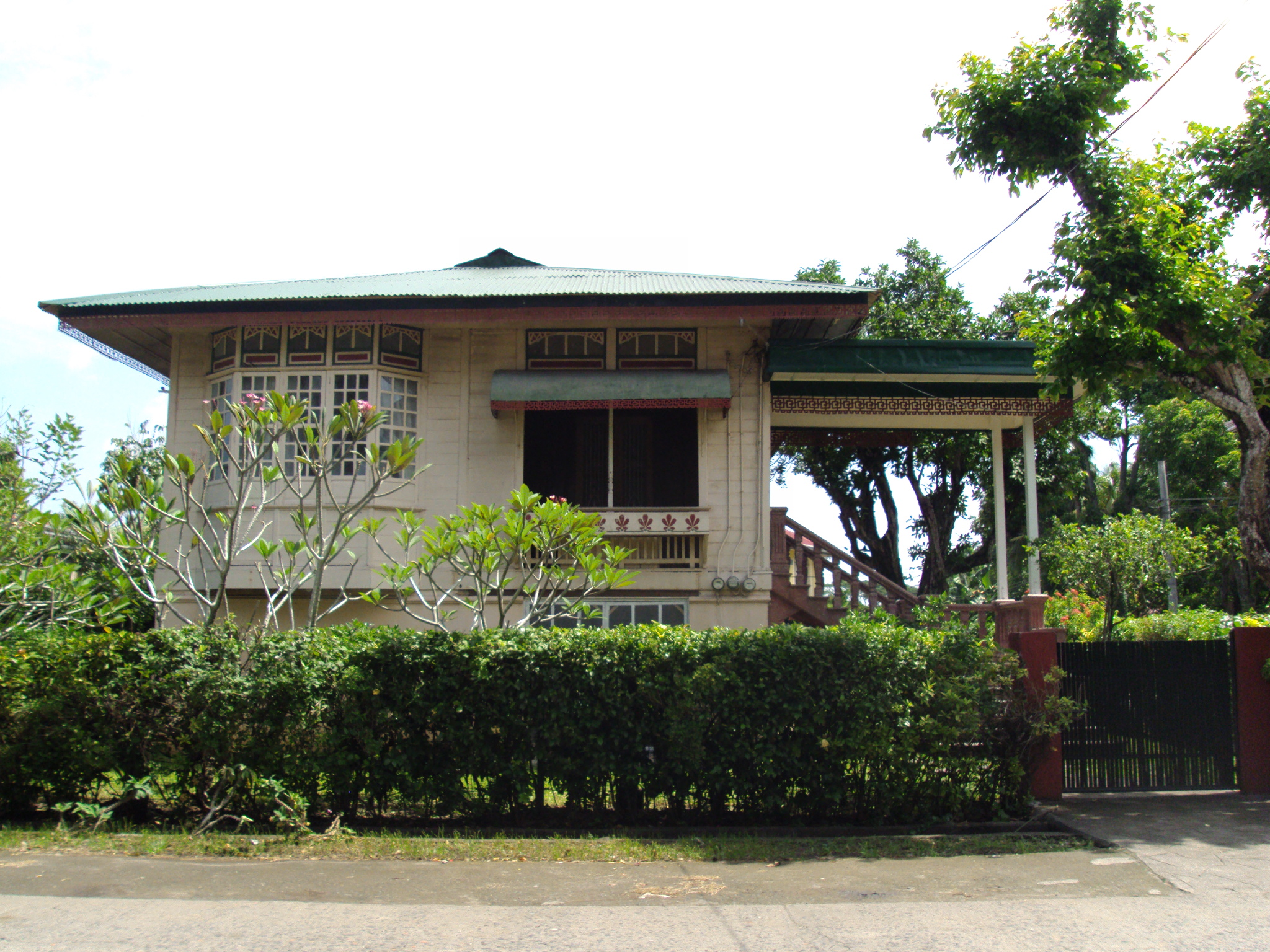 Corazon Rivera House from Pila, Laguna